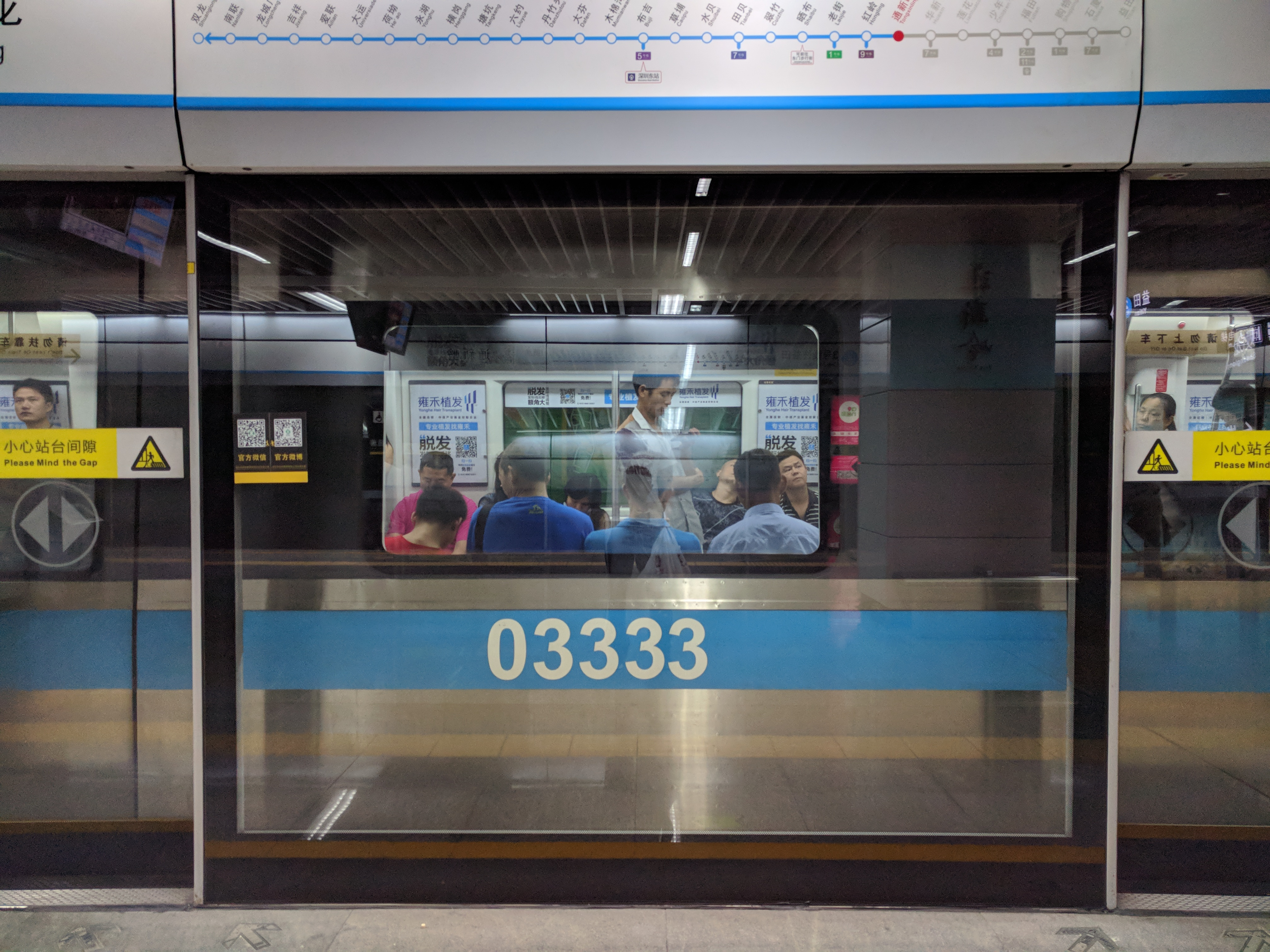 Car 03333 of Line 3 Shenzhen Metro